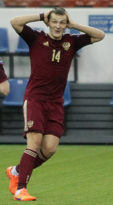 Aleksandr Seraskhov playing for Russia U-21 against Latvia U-21 on 19 January 2016.